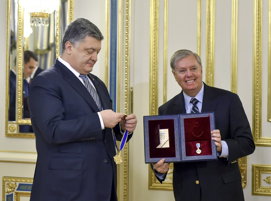 President presented state awards to Senators John McCain and Lindsey Graham